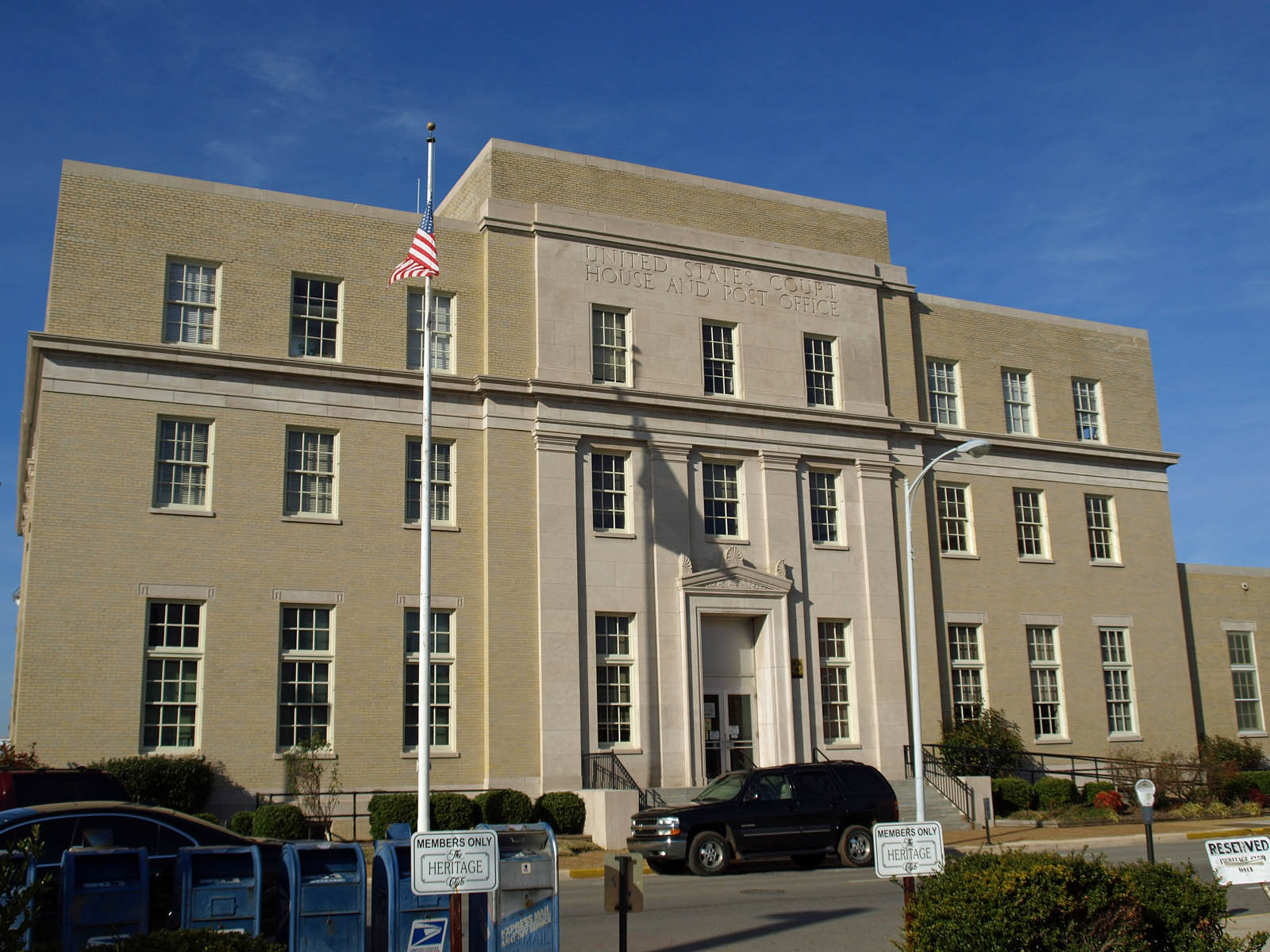 The U.S. Court House and Post Office in Huntsville, Alabama, listed on the National Register of Historic Places.